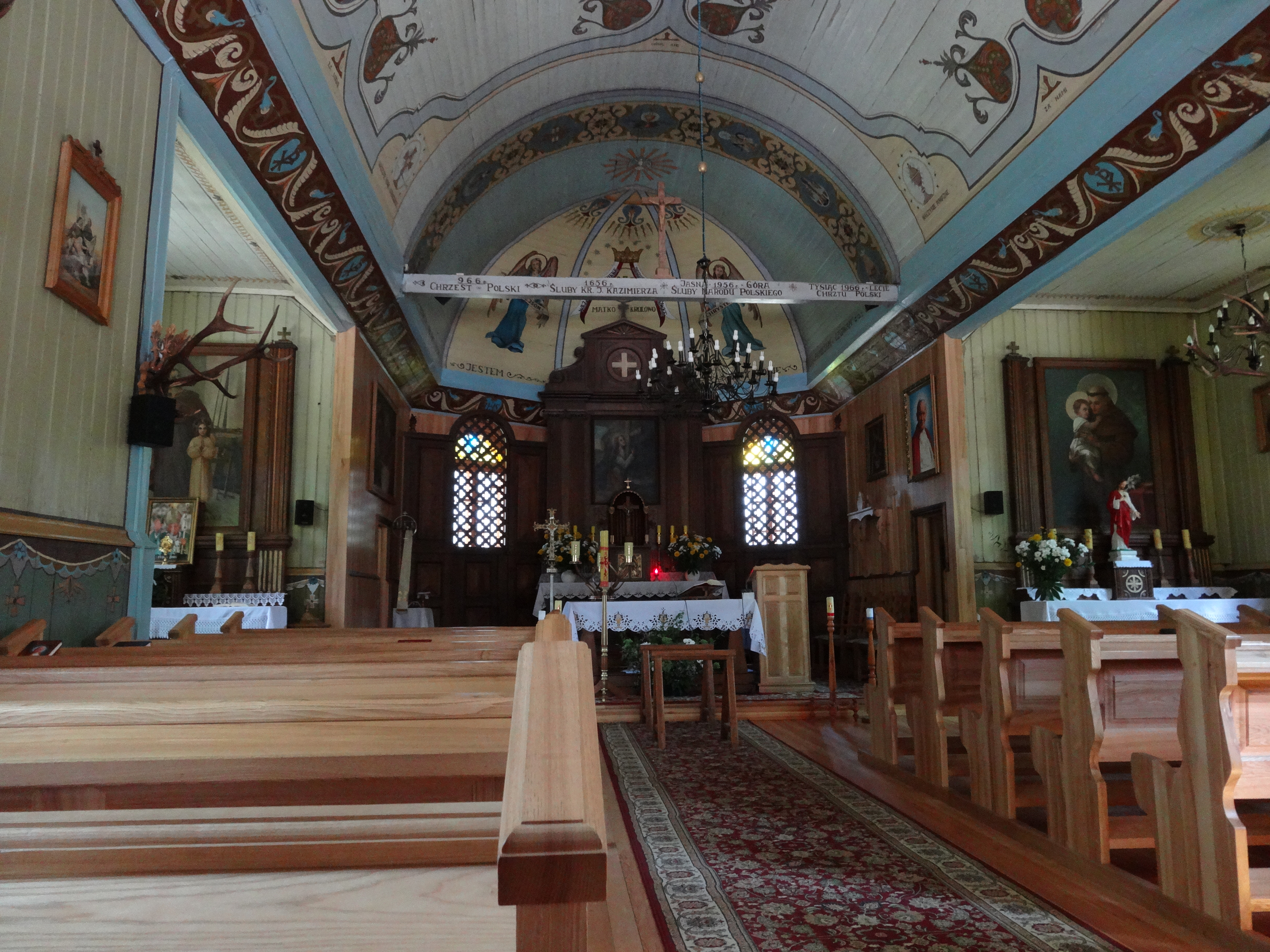 Wooden church in Mikaszówka, gmina Płaska, Poland.